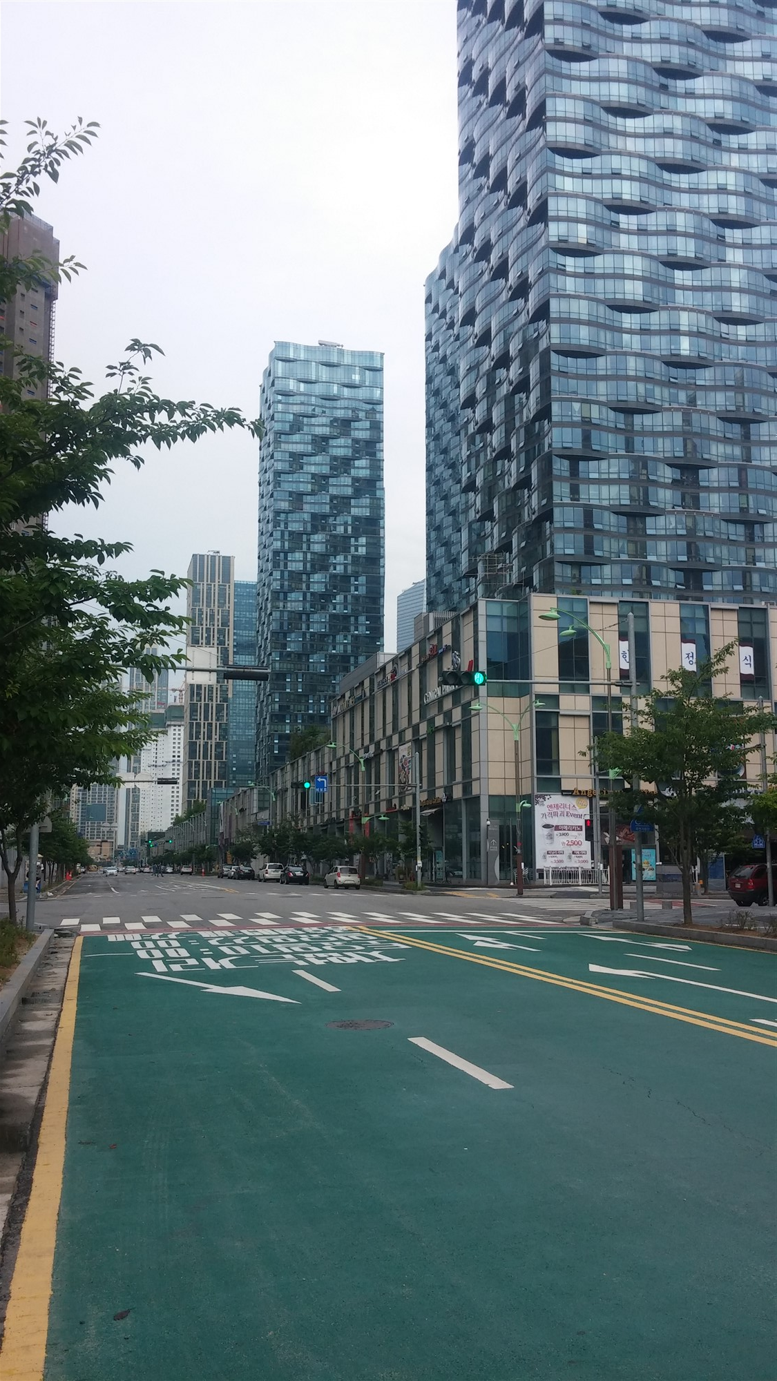 A building with ripples in Songdo IBD, Incheon, South Korea